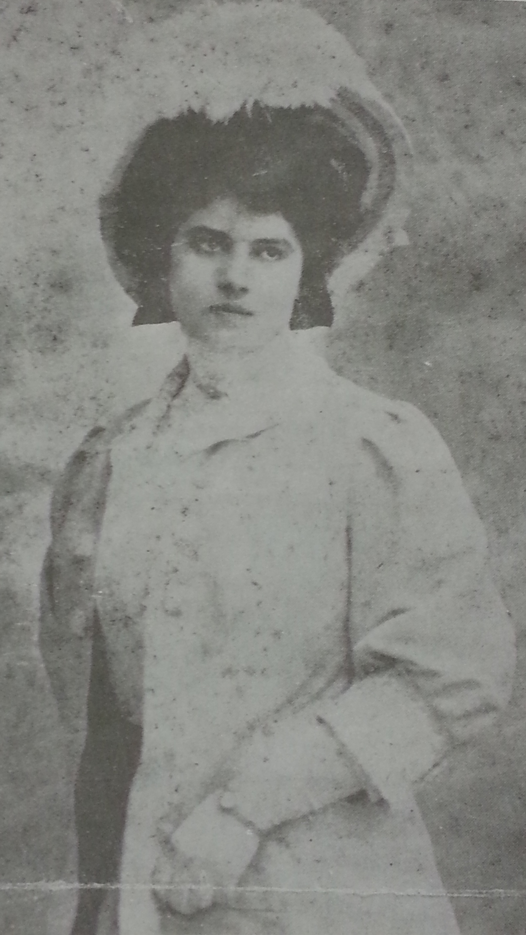 A photograph of May Ziade in her early 20s.